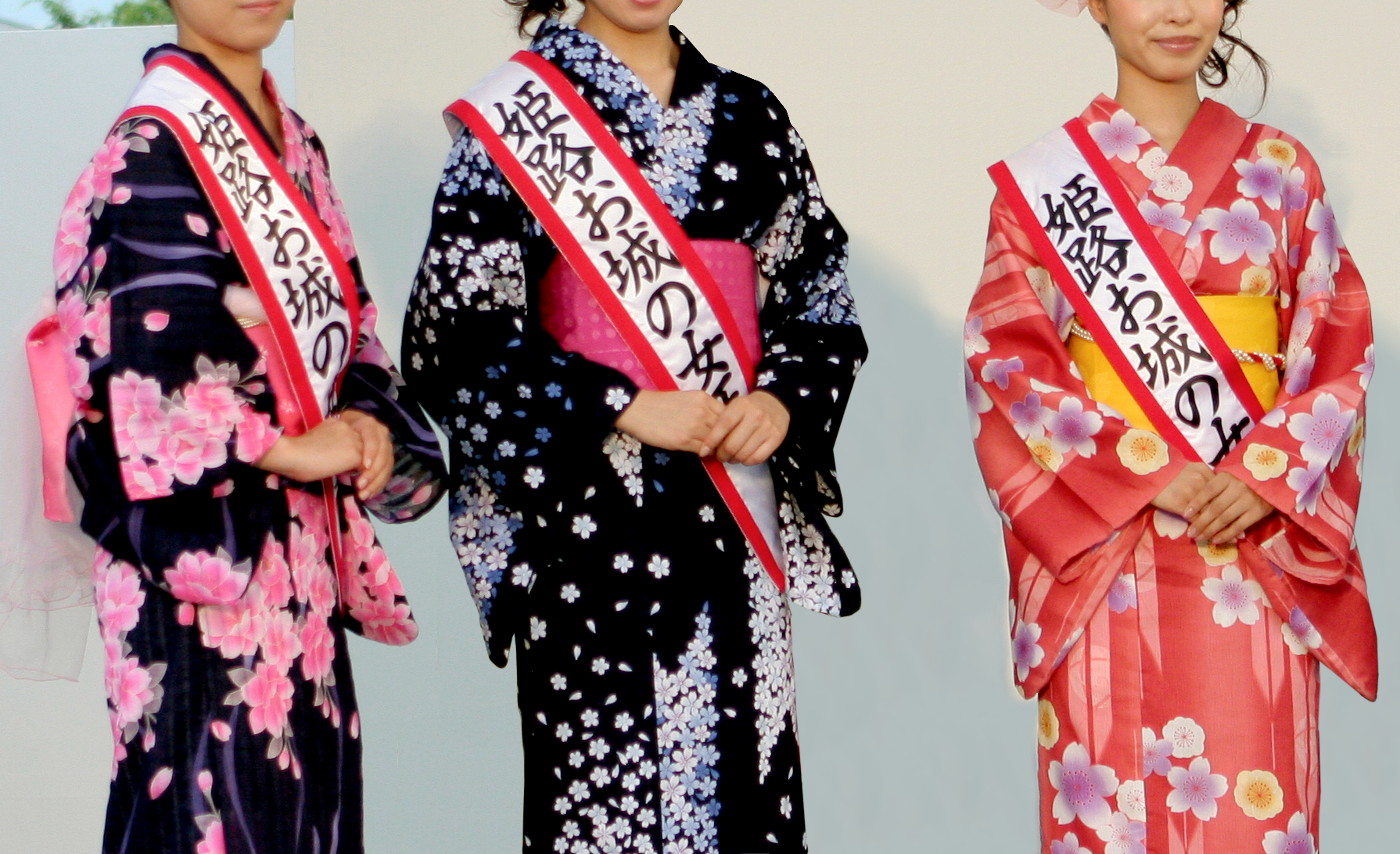 Three different depictions of cherry blossoms in women's yukatas